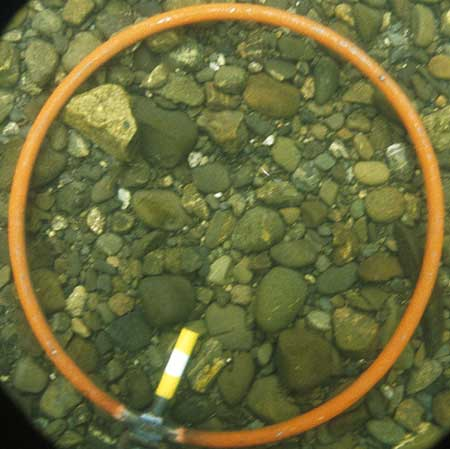 Sediment in the bed of Campbell Creek from a USGS study. Transect 5, thalweg, bed sediment, 10.7 feet from left edge of water.